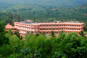 This is a C.B.S.E school run by Sri Sathya Sai Loka Seva trust